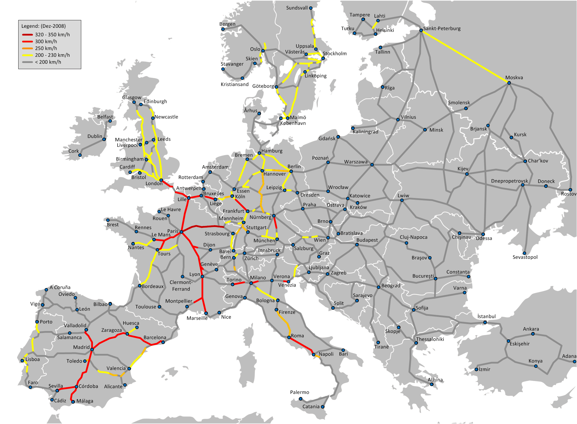 High Speed Railroad Network in Europe at the end of 2008. Note that this map only includes tracks in operation in 2008, and is labeled with maximum allowed speed, not designed speed.